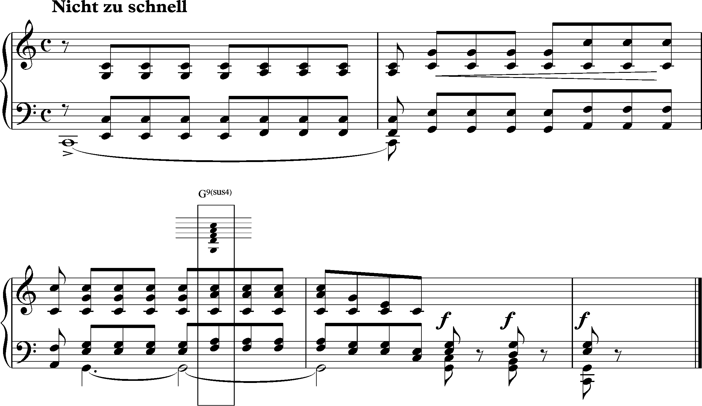 Schumann "Ich grolle night", concluding bars